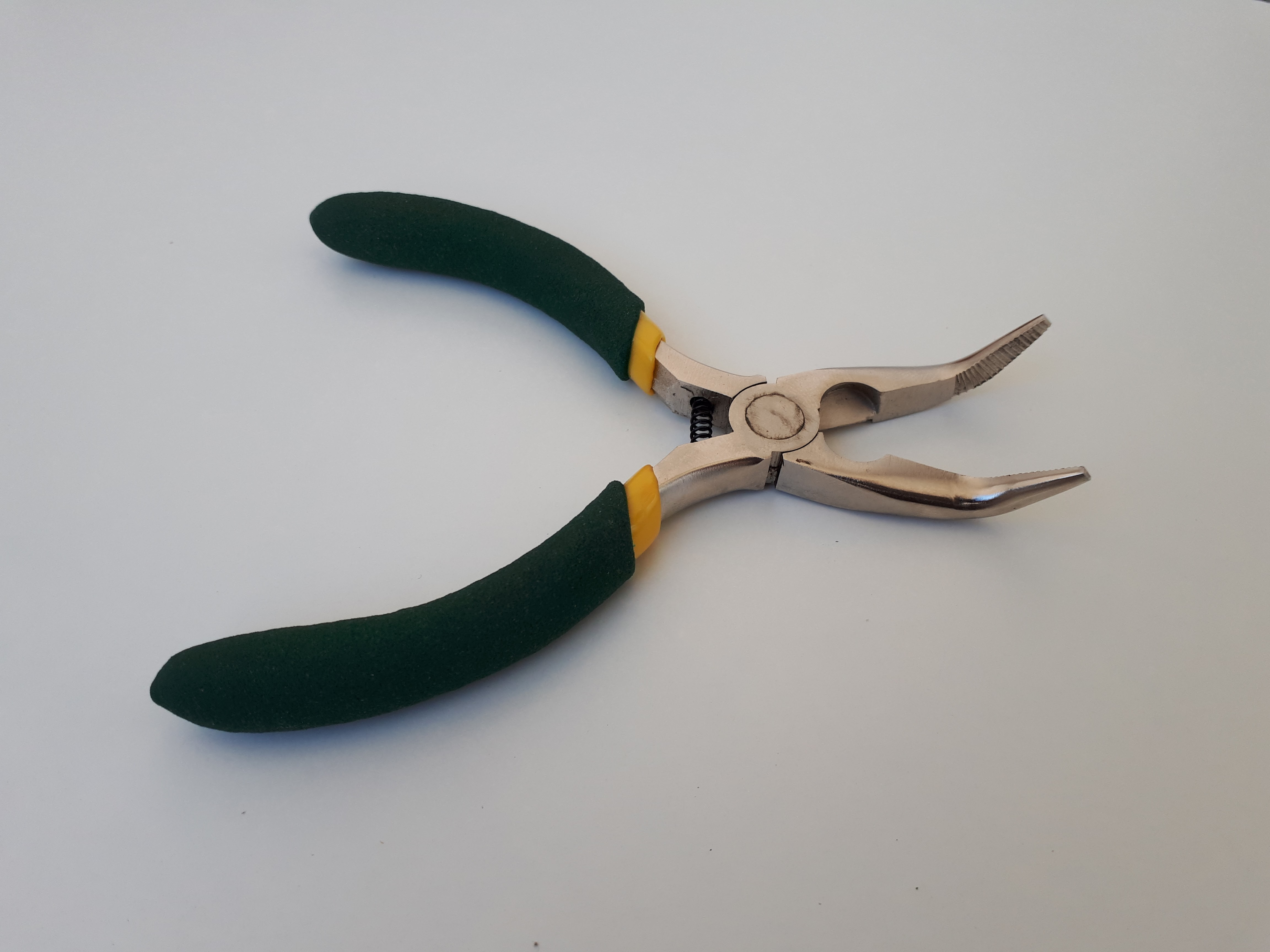 Small green bent nose pliers - 13 x 5.5 cm